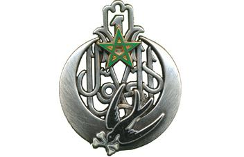 Regimental badge of the 1st Rifle Regiment (France).